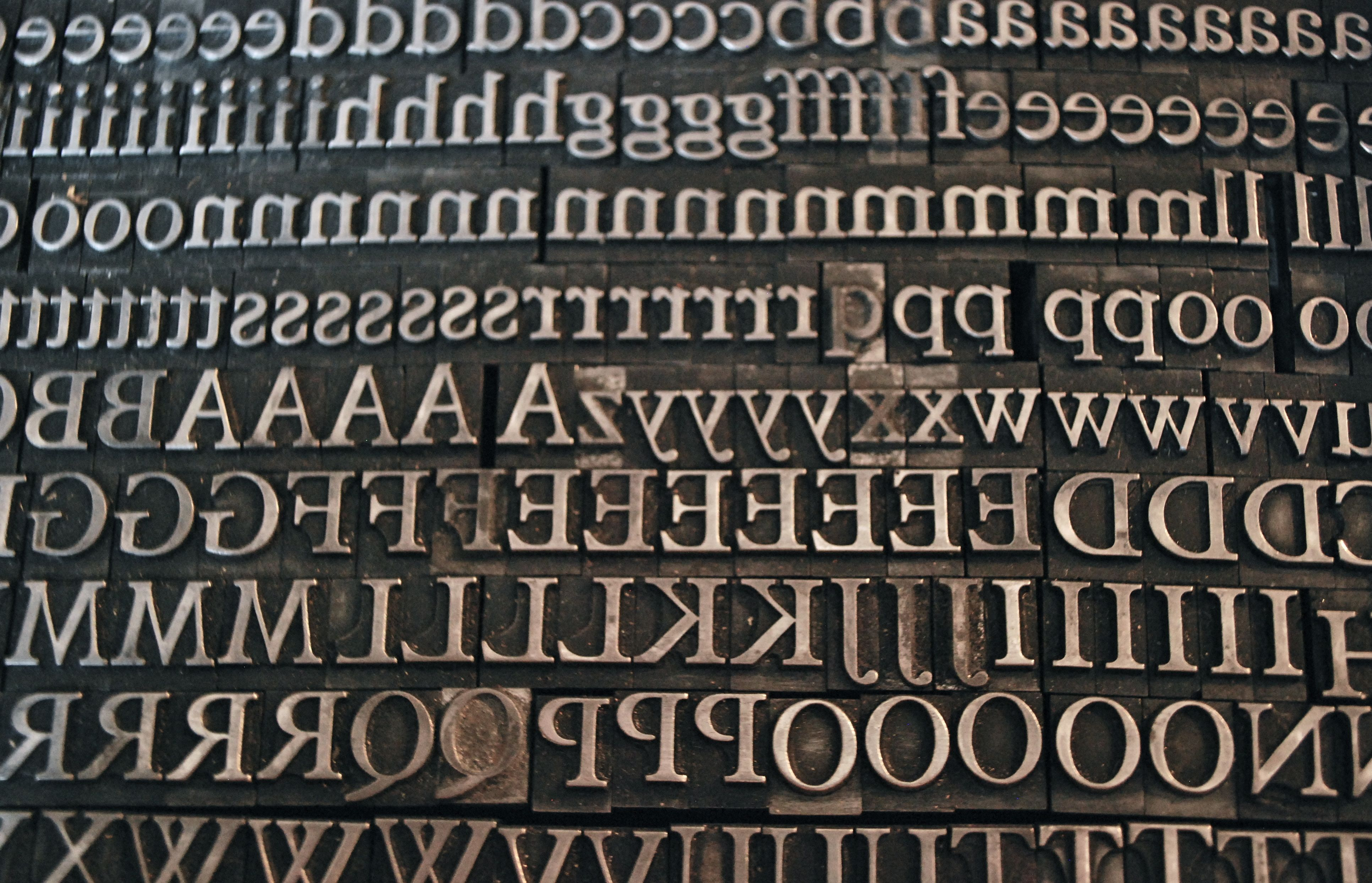 Plantin letterpress type